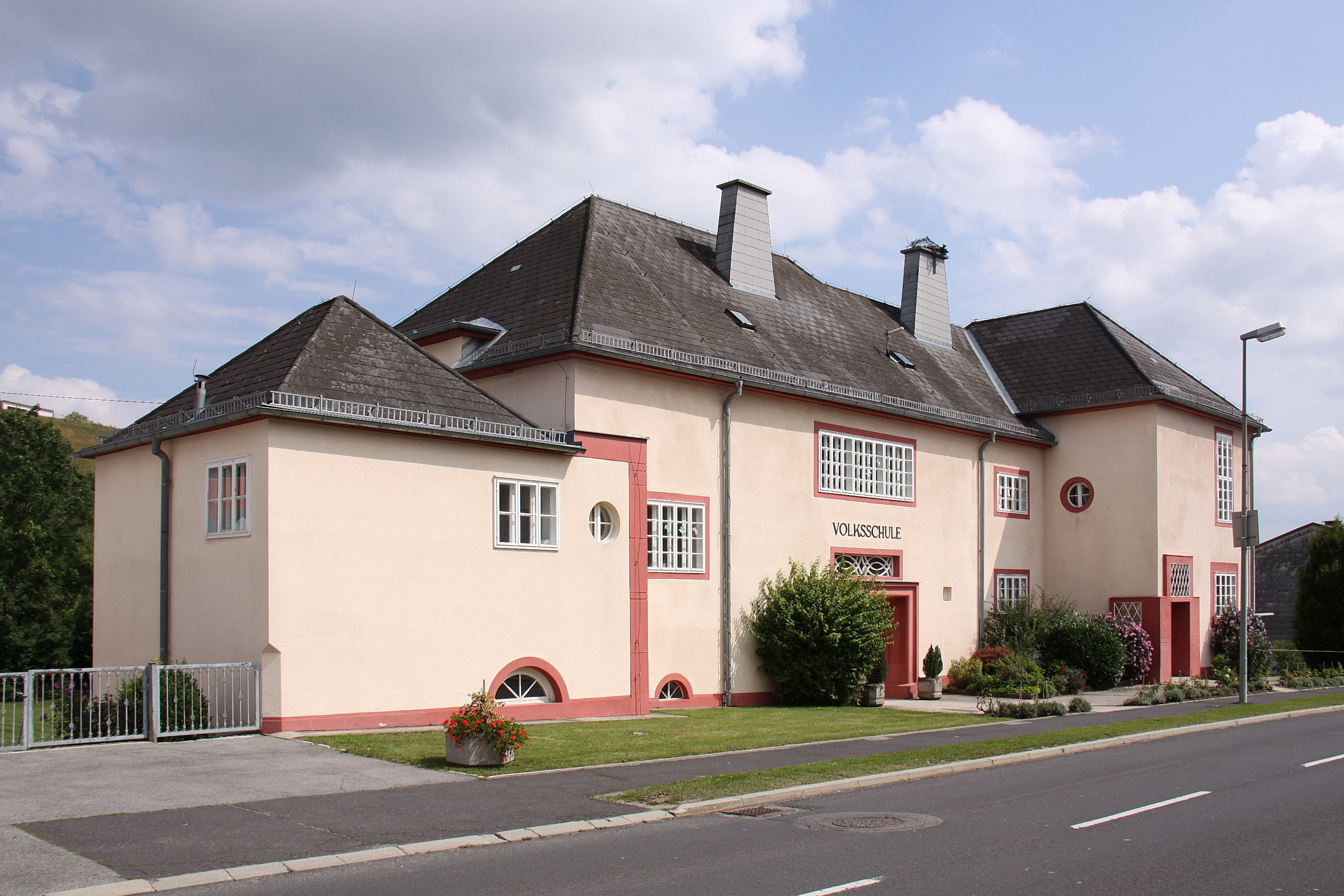 Volksschule - Sieggraben Object location47° 38′ 50.94″ N, 16° 22′ 46.61″ E